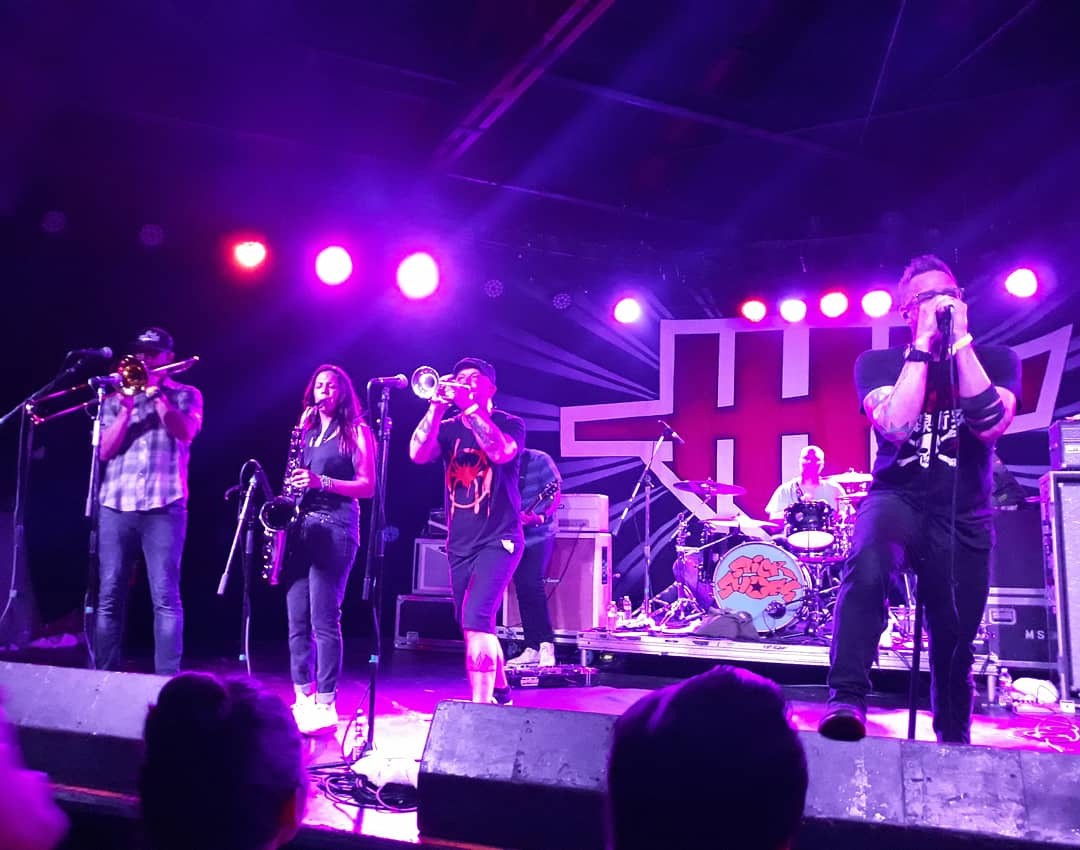 A photograph of American band Five Iron Frenzy performing in Pomona, California on July 13, 2019.